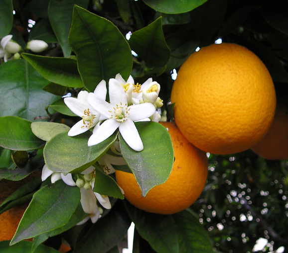 Orange blossom and oranges.Taken by Ellen Levy Finch (User:Elf) March 23, 2004.Originally uploaded on English Wikipedia.